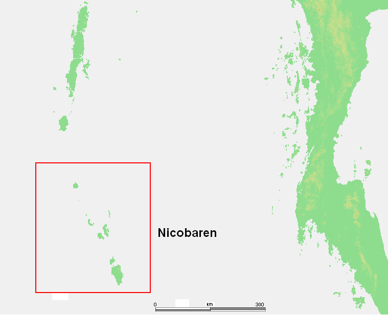 Andaman + Nicobar Islands (Dutch text)